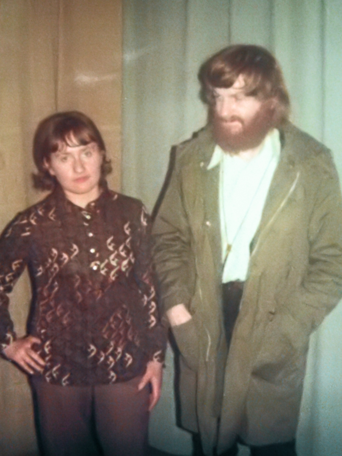 Claire samen met Willem Vermandere na een optreden in Deerlijk